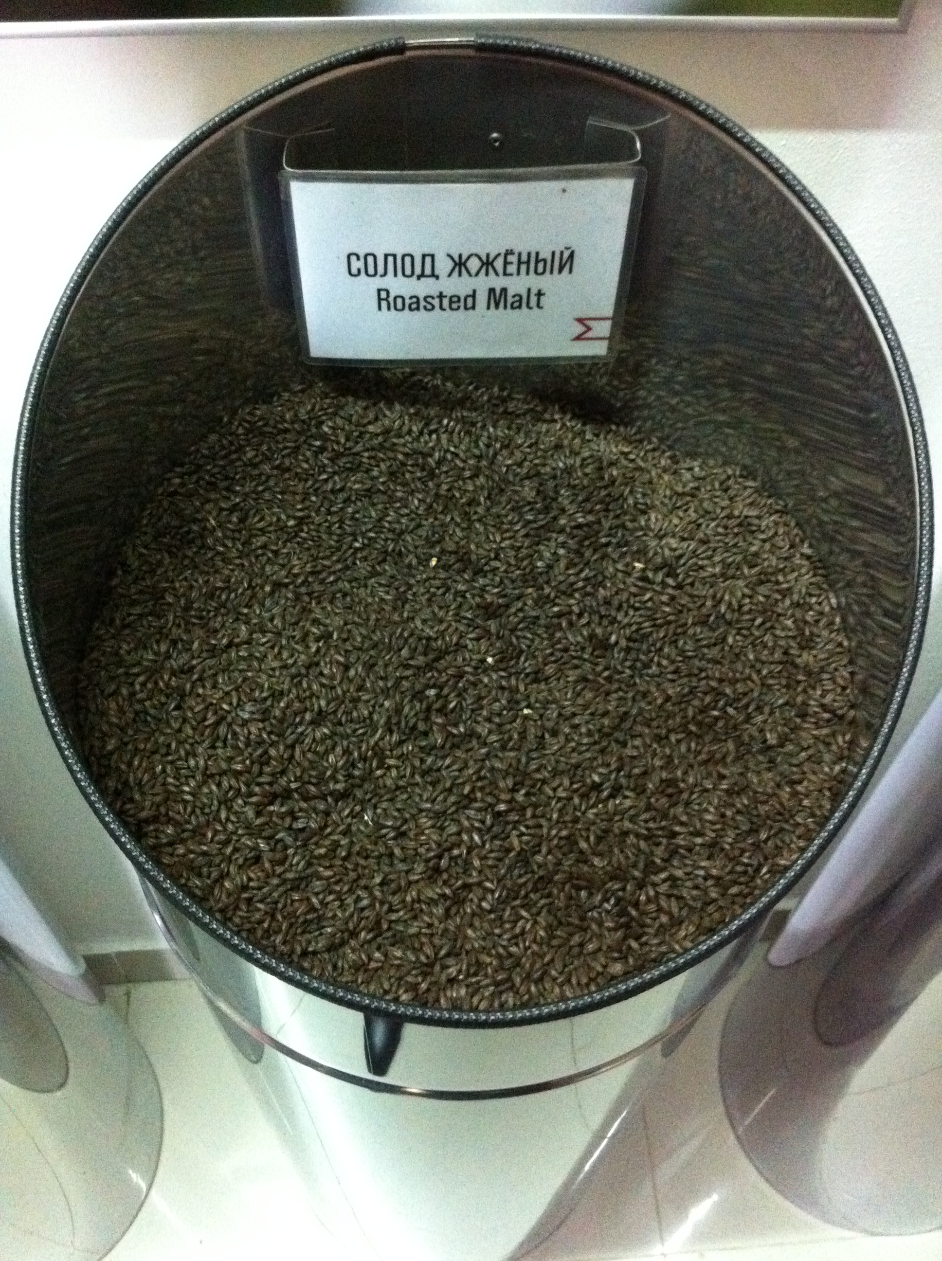 Roasted malt used for beer brewing. The sample at the brewery Moscow Brewing Company.